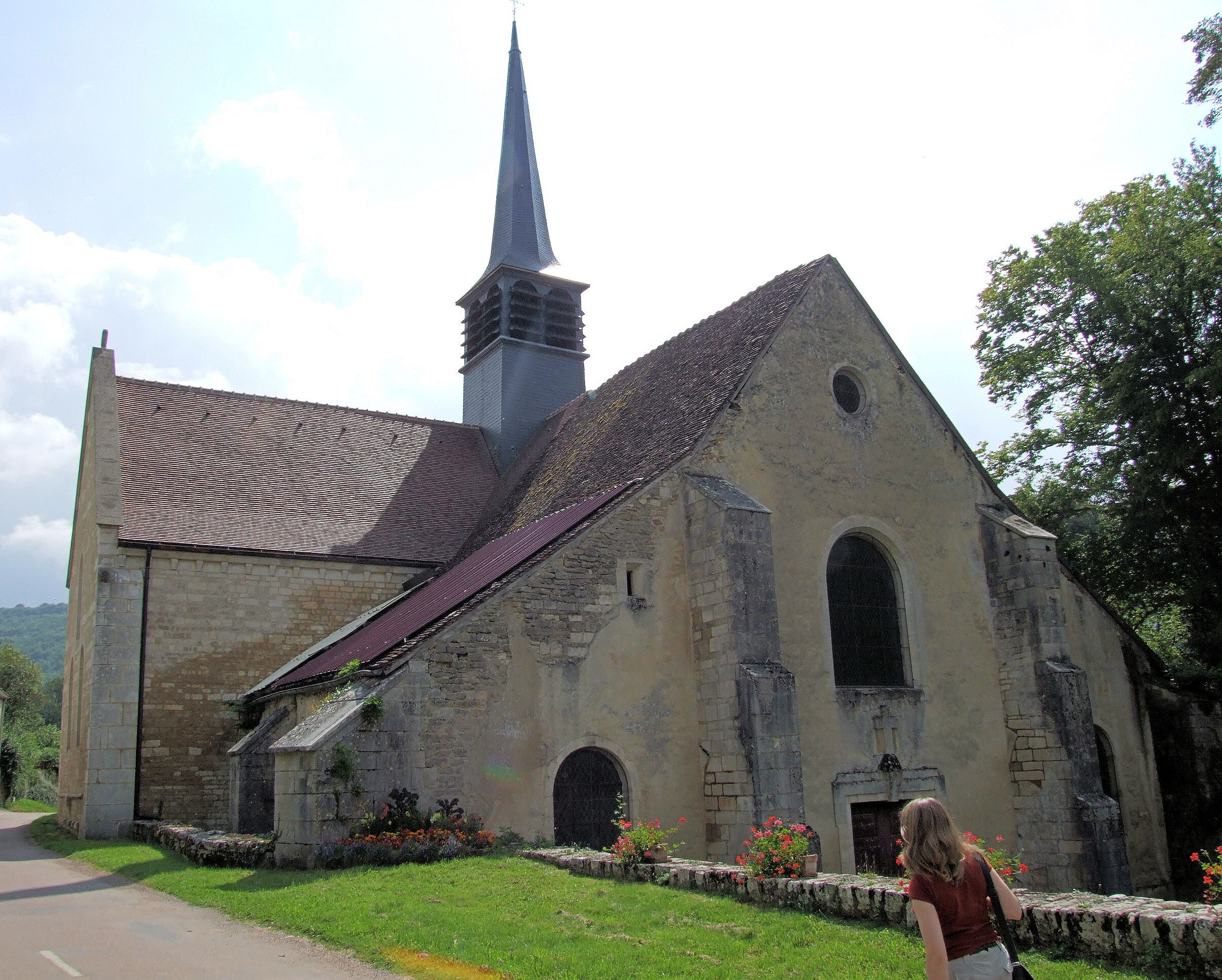 La Bussière-sur-Ouche, Bourgogne, France